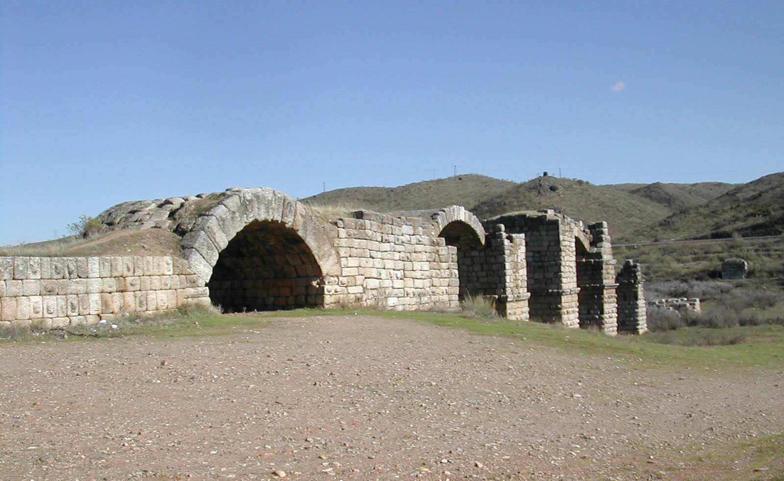 The remains of the Roman Puente de Alconétar (Alconétar Bridge), Cáceres Province, Spain. The ancient segmental arch bridge originally crossed the Tajo river near the village of Garrovillas. In 1972, during the construction of the Alcántara reservoir, the structure was moved 6 km upstream to its current location.